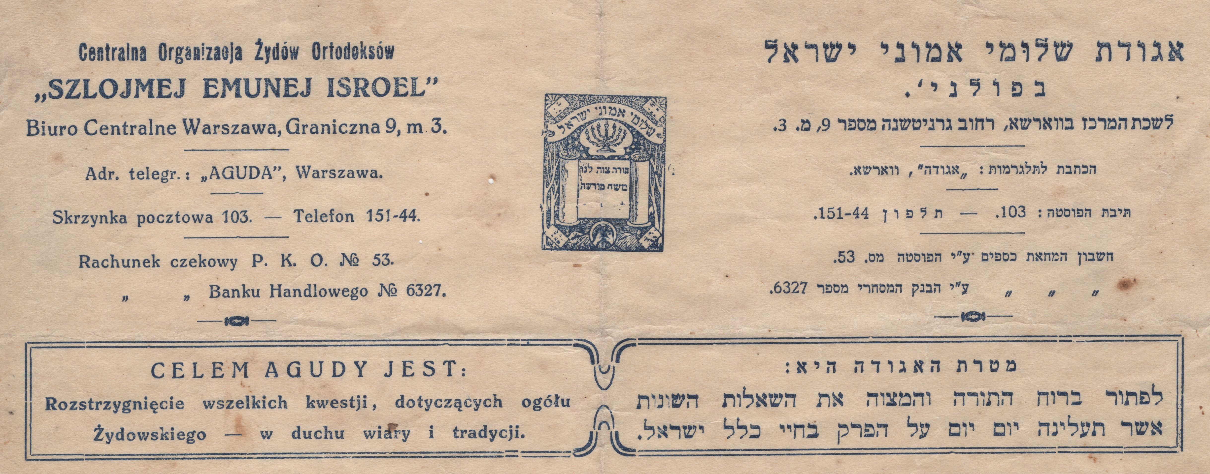 Agudat Israel Warsaw Polsand 1921